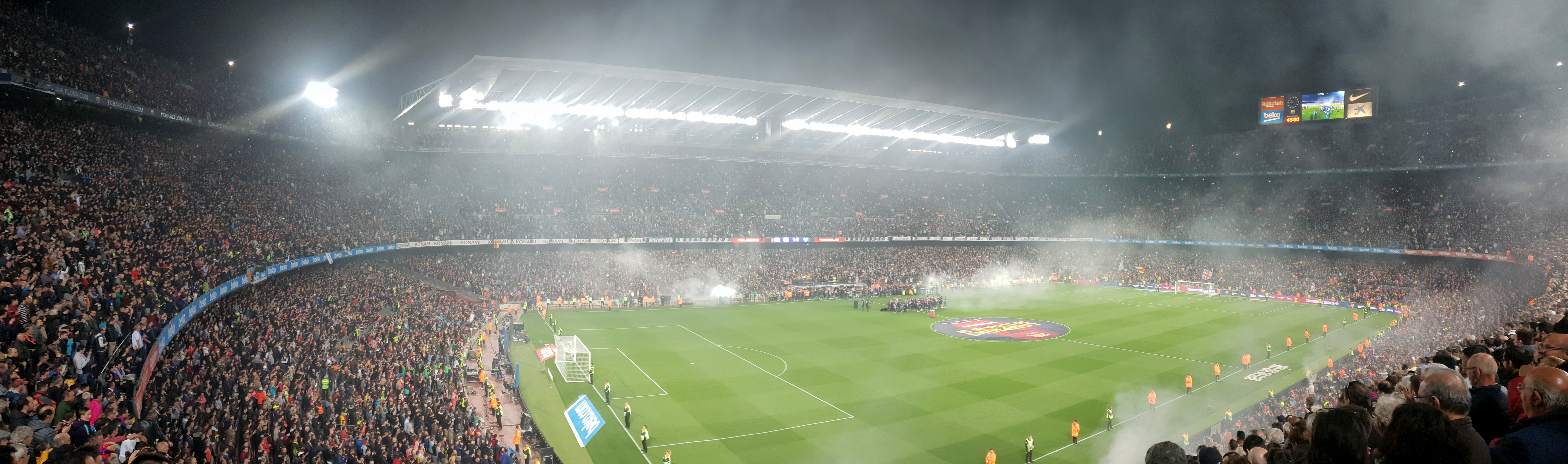 FC Barcelona - Llevant 1:0 27 April 20109 Camp Nou